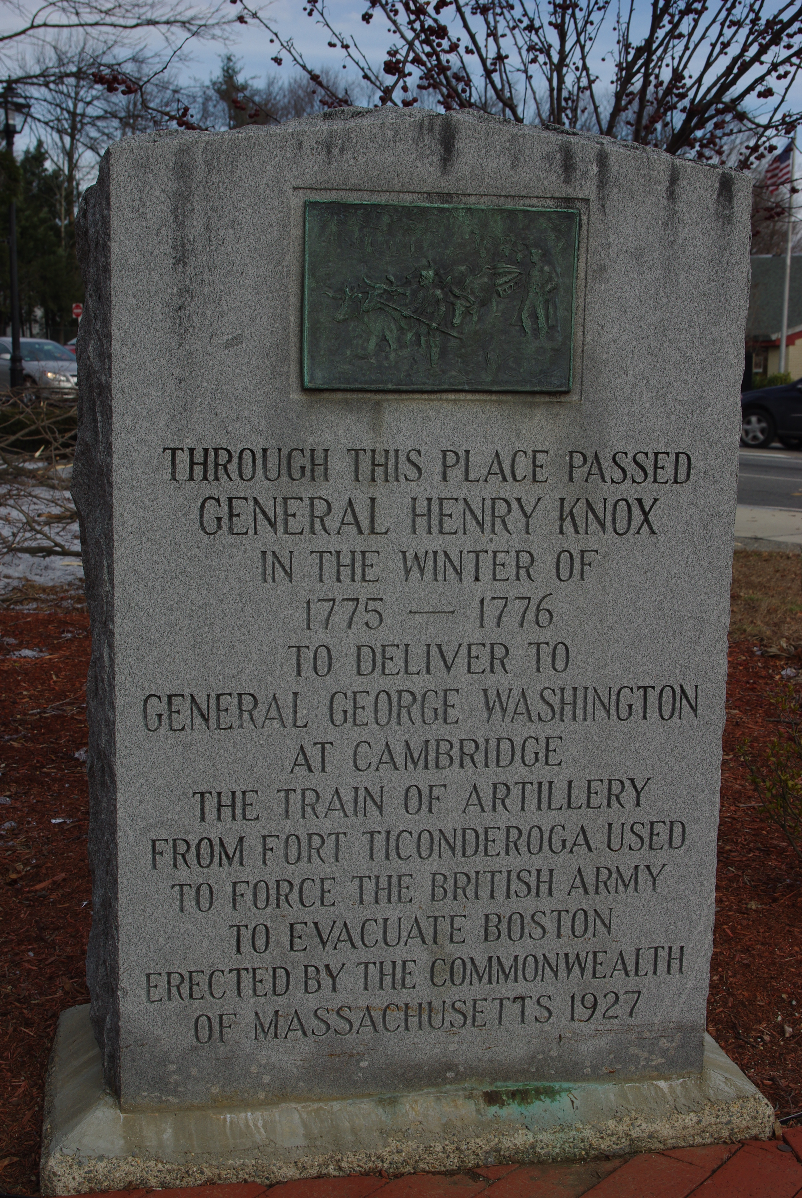 Revolutionary war monument.